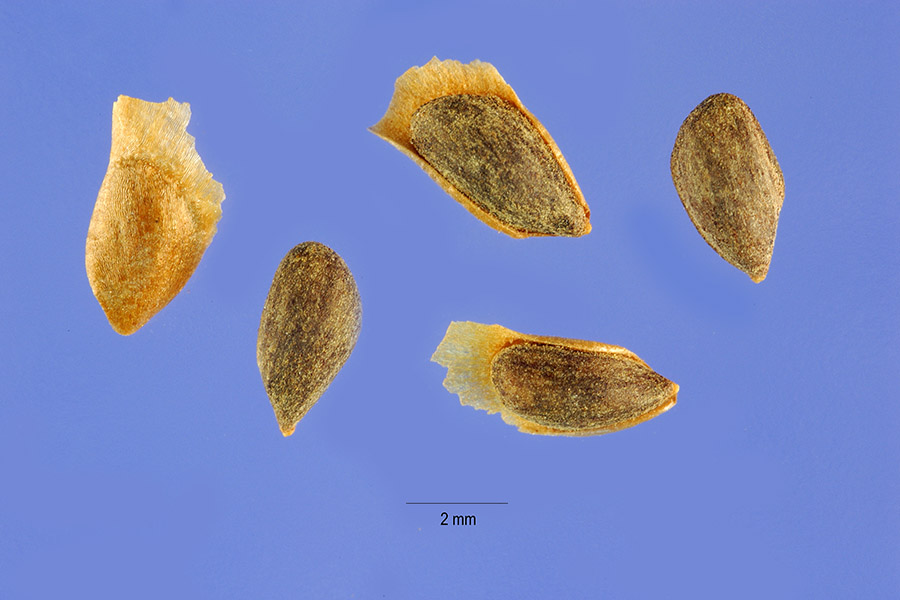 Seeds of Blue Spruce (Picea pungens)